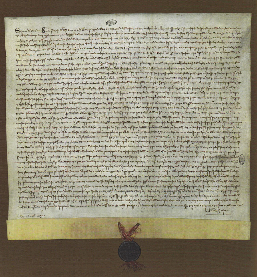 Vassalage Contract between King Denis I of Portugal, and Micer Emanuele Pessagno of Genoa, dated 1 February 1317.